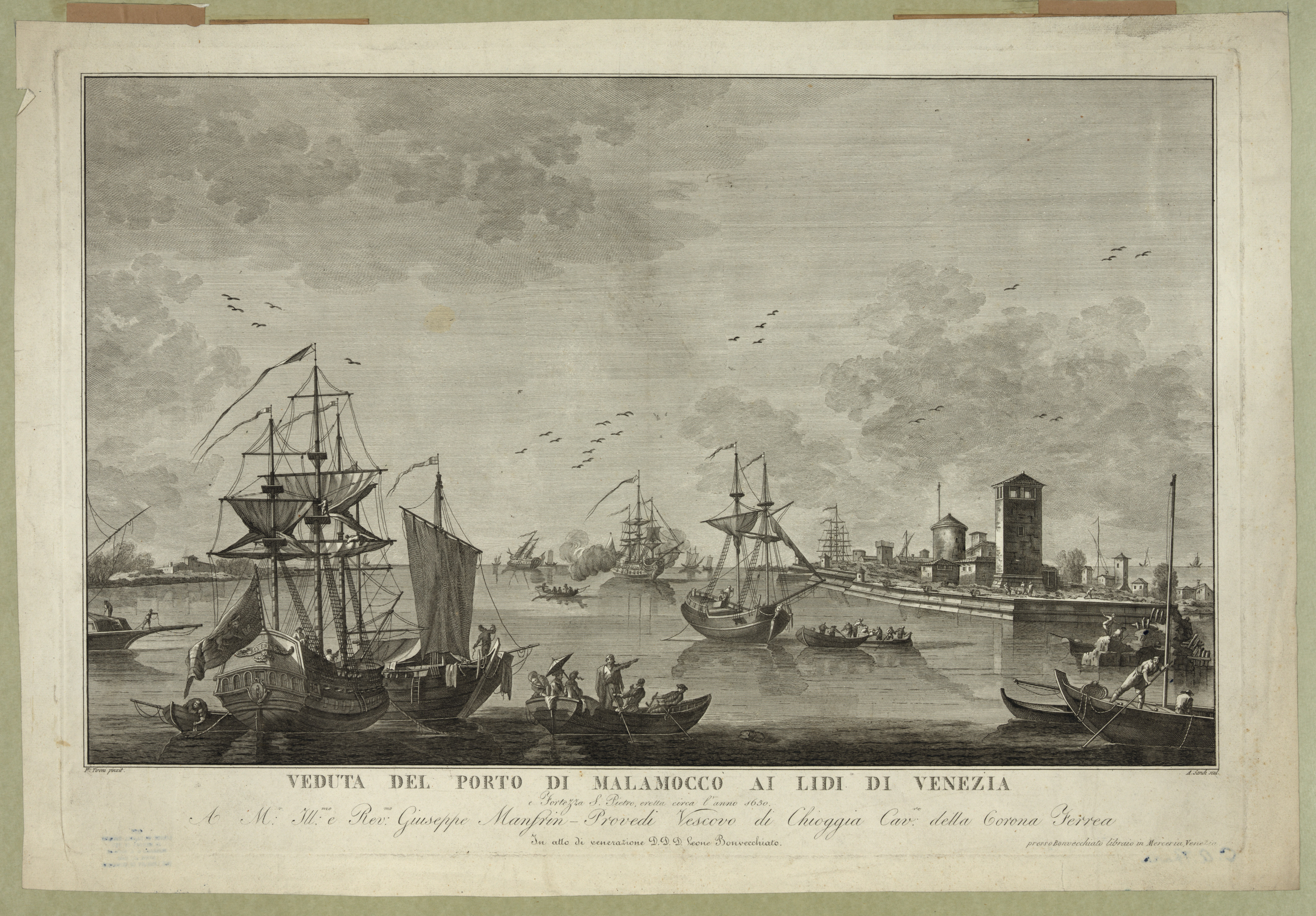 Title: Veduta del porto de Malamocco ai lidi di Venezia / F. Tironi pinxit ; A. Sandi scul. Abstract/medium: 1 print : engraving.